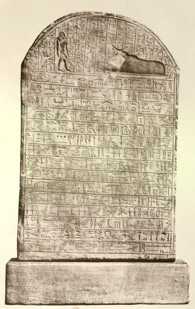 The so-called Pasenhor Stela, commemorating the death of an Apis bull in year 37 of Aakheperre Shoshenq (V). The Apis was enthroned in year 11 of the same pharaoh. Pasenhor was a priest of Ptah lived in this period. Reign of Aakheperre Shoshenq (V), 22th dynasty, Third intermediate period. Found in the Serapeum of Saqqara, now in the Louvre Museum (S 1959).